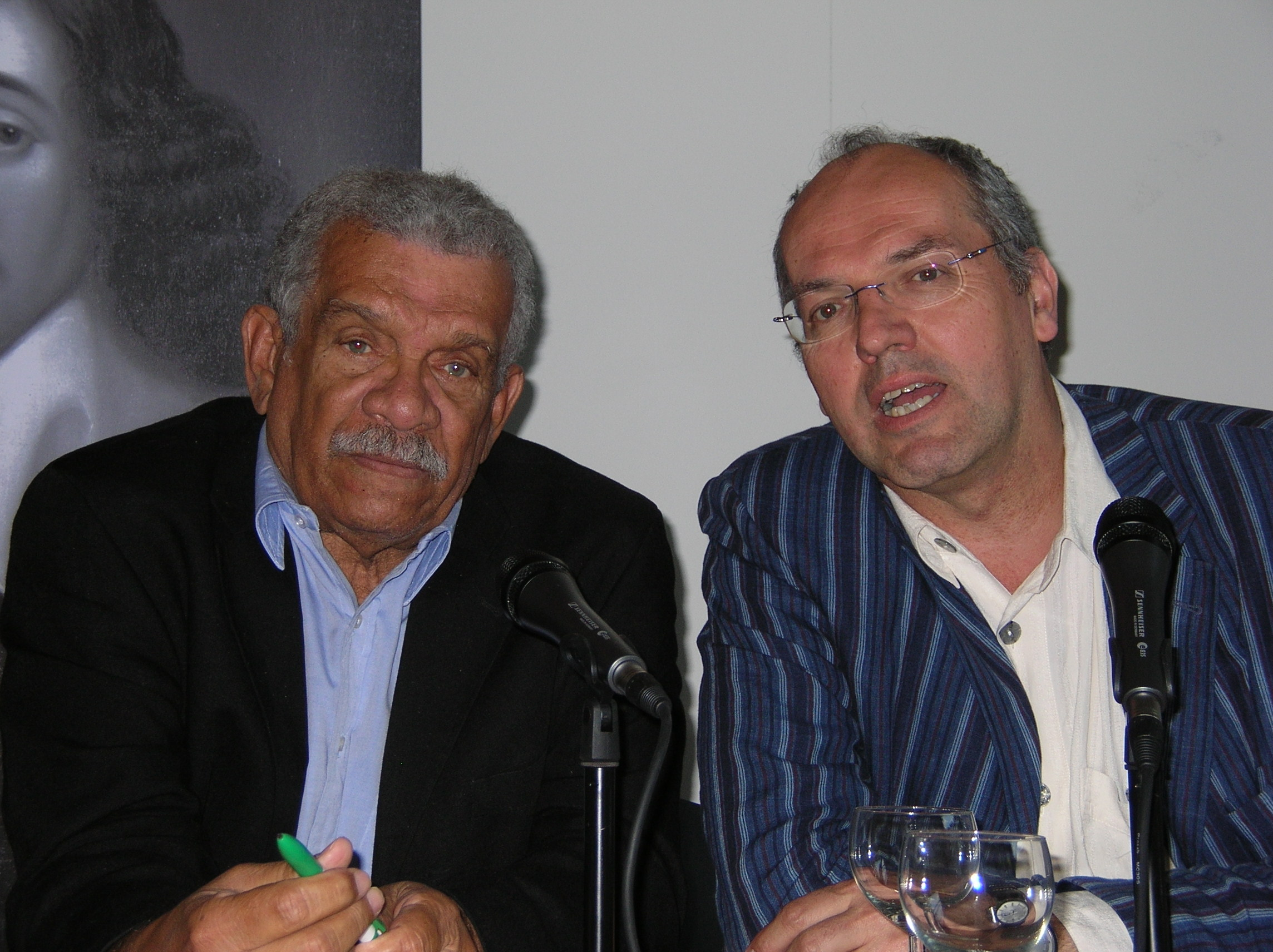 Derek Walcott, Nobel Prize in Literature 1992, and Dutch literarry scolar Michiel van Kempen, at a master class given by Walcott, Amsterdam, May 19th 2008